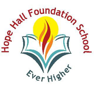 logo for hope hall